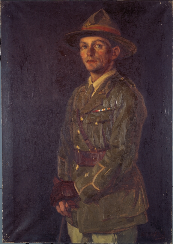 A portrait by Archibald Nicoll of Second Lieutenant John Grant VC of the NZEF, painted in 1920